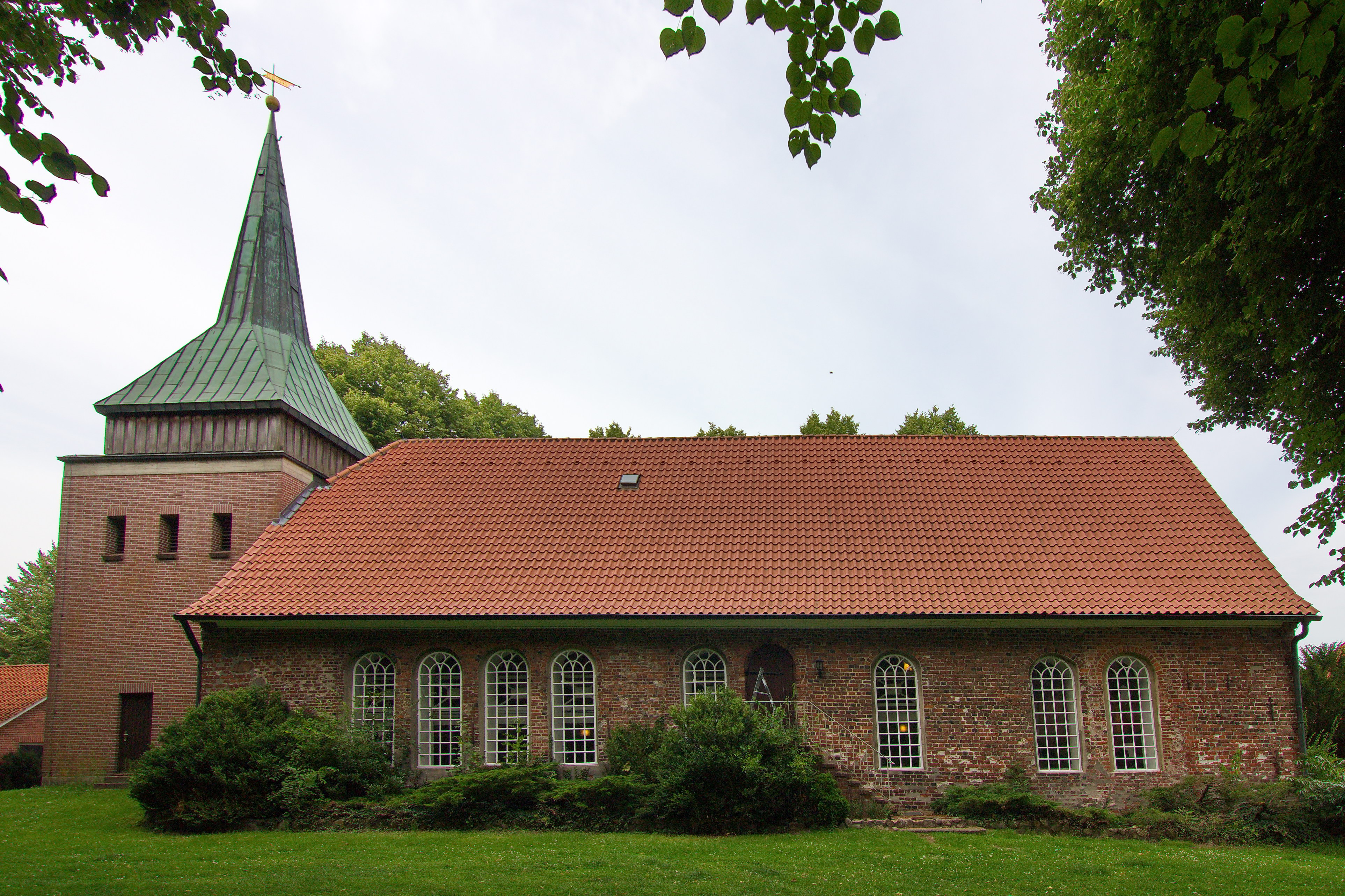 St. Marienkirche von 1384 in Hechthausen, Niedersachsen, Deutschland